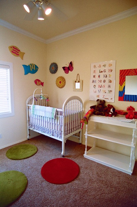 Subject: Home staged for resale - Nursery Location: North Phoenix, Arizona, USA Date: August 2006 Photographer: Andwhatsnext Credit: Work completed by Steve Price/JesmondHomes.com Original digital photograph, resized Photo copyright (c) 2006 by Nancy J Price